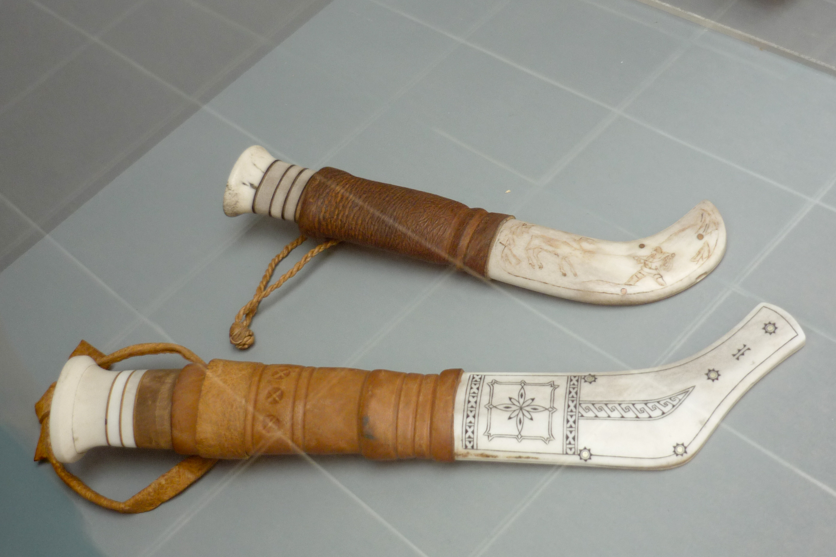 Sami knives, Rovaniemi Arctic Museum.